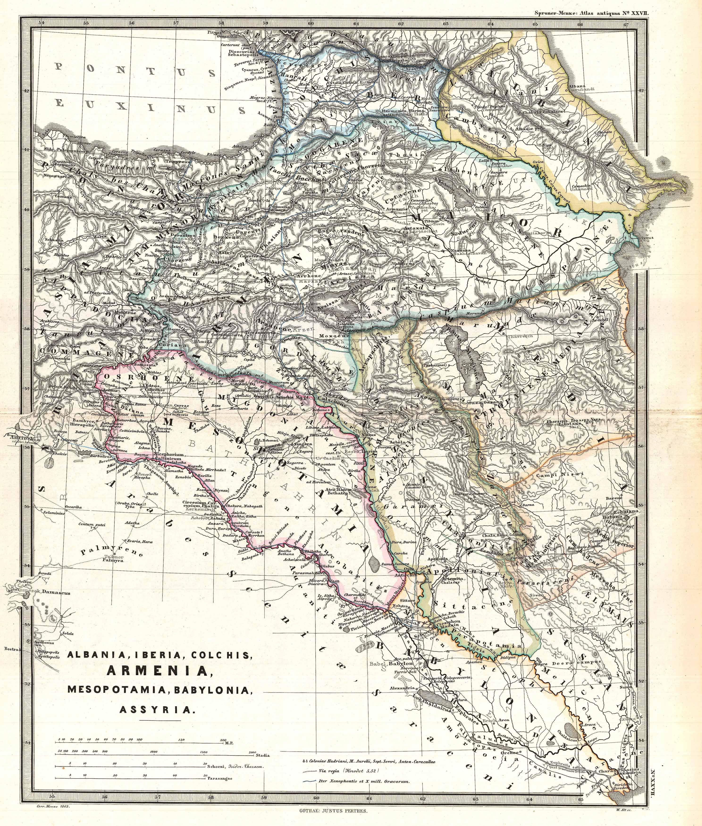 A particularly interesting map, this is Karl von Spruner’s 1865 rendering of the Caucasus and Mesopotamia in antiquity. Centered on Lake Van (modern day eastern Turkey), this map covers the Caucasus region between the Black Sea and the Caspian Sea, then southwards to the Fertile Crescent as far as the Euphrates River, Babylonia, and the head of the Persian Gulf. These regions include the modern day countries of Iraq, Armenia, Georgia, Azerbaijan, and adjacent parts of Syria, Turkey, Iran, and the North Caucasus. Like most of Spruner’s work this example overlays ancient political geographies on relatively contemporary physical geographies, thus identifying the sites of forgotten towns and villages, the movements of armies, and the disposition of lands in the region. This particular example includes ancient names for many notable regions and historical sites. As a whole the map labels important cities, rivers, mountain ranges and other minor topographical detail. Territories and countries outlined in color. The whole is rendered in finely engraved detail exhibiting the fine craftsmanship for which the Perthes firm is known.